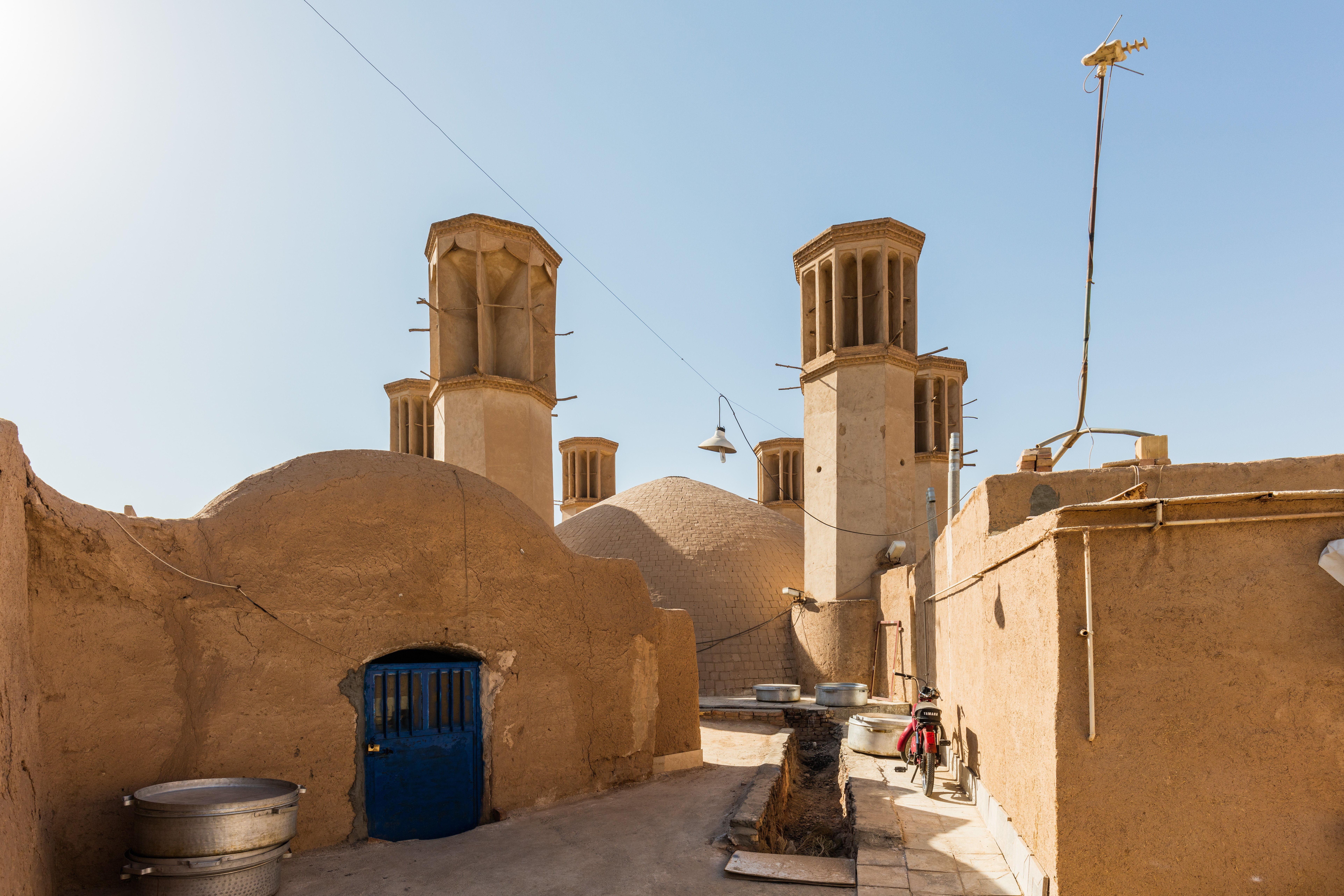 Shish Badgiri, Yazd, Iran